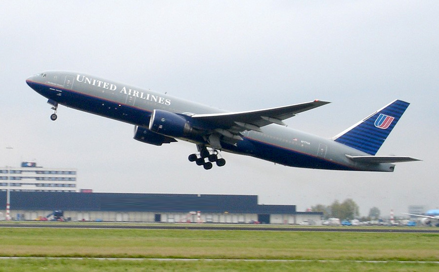 The first UA 777, registry N777UA, special "Working together" titles on the nose section (WA006 in test phase)